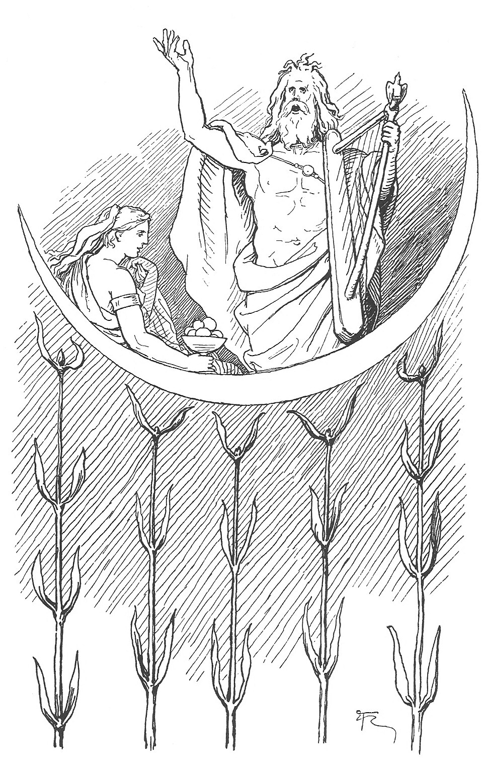 The skaldic god Bragi holds a harp and sings while his wife Iðunn holds a bowl of apples in the background. The image appears prior to the preface of the edition, and no title or caption is provided.